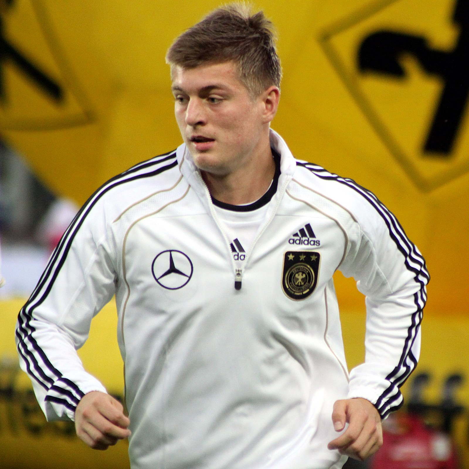 Toni Kroos (FC Bayern Munich), german national football team - OpenStreetMap(Info)